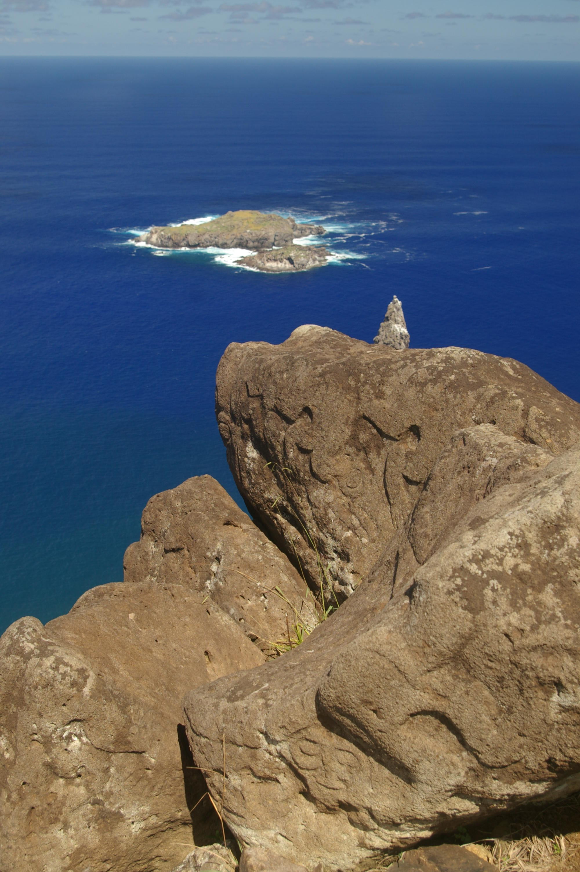 Moto Nui, Island of the Birdman cult, seen from the Orongo village with Birdman petroglyphs.